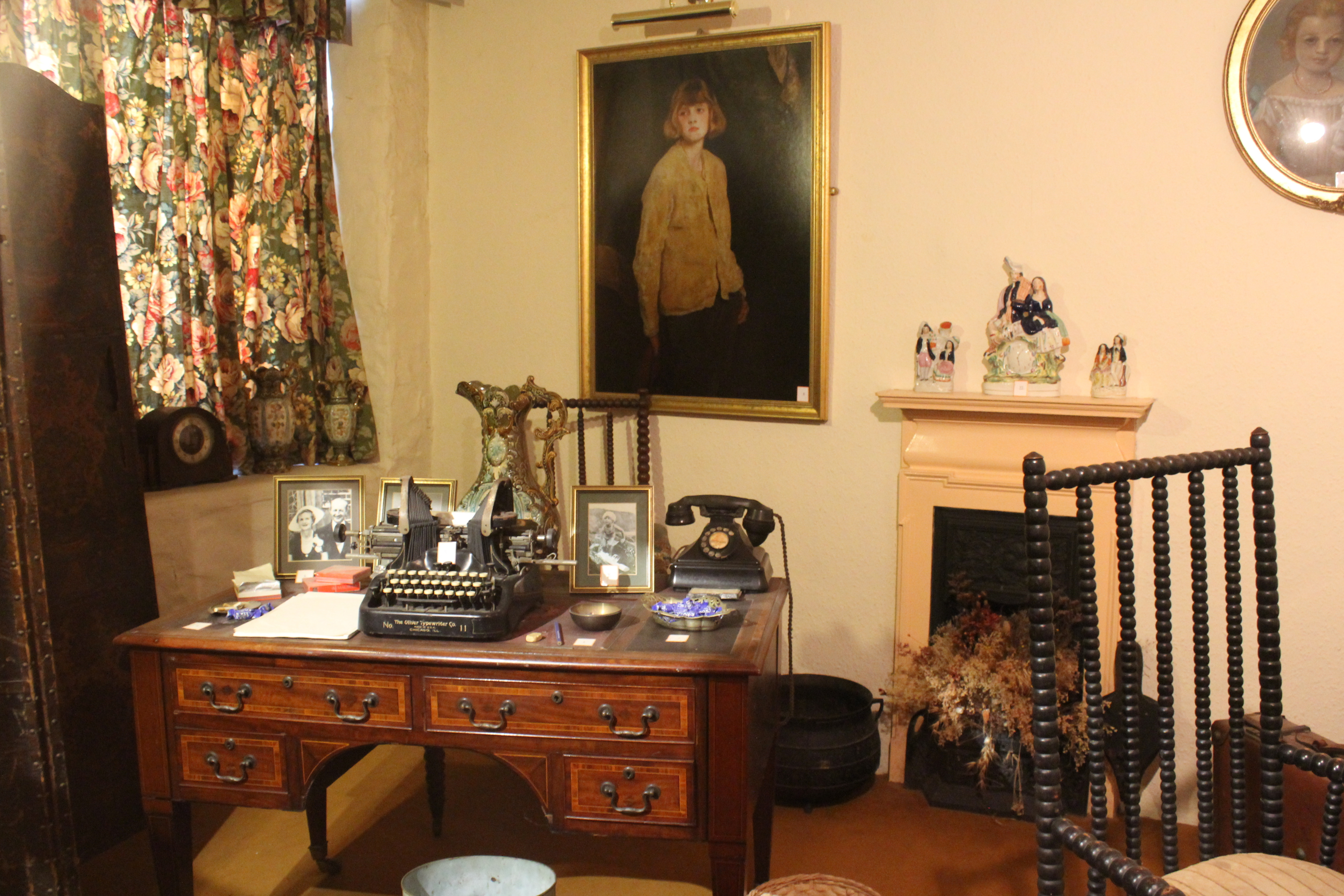 Reconstruction of Daphne du Maurier's study at the Smugglers Museum, Jamaica Inn, Cornwall. The room contains her Sheraton writing desk. The items on teh desk include not only her typewriter, but also a packet of the du Maurier cigarettes named after her father and a dish of Glacier Mints - her favourite sweets.